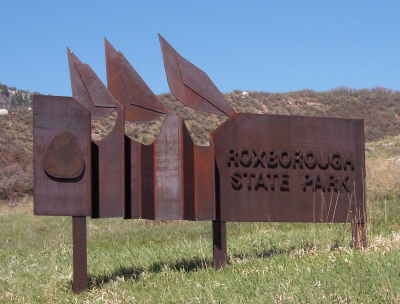 Roxborough State Park